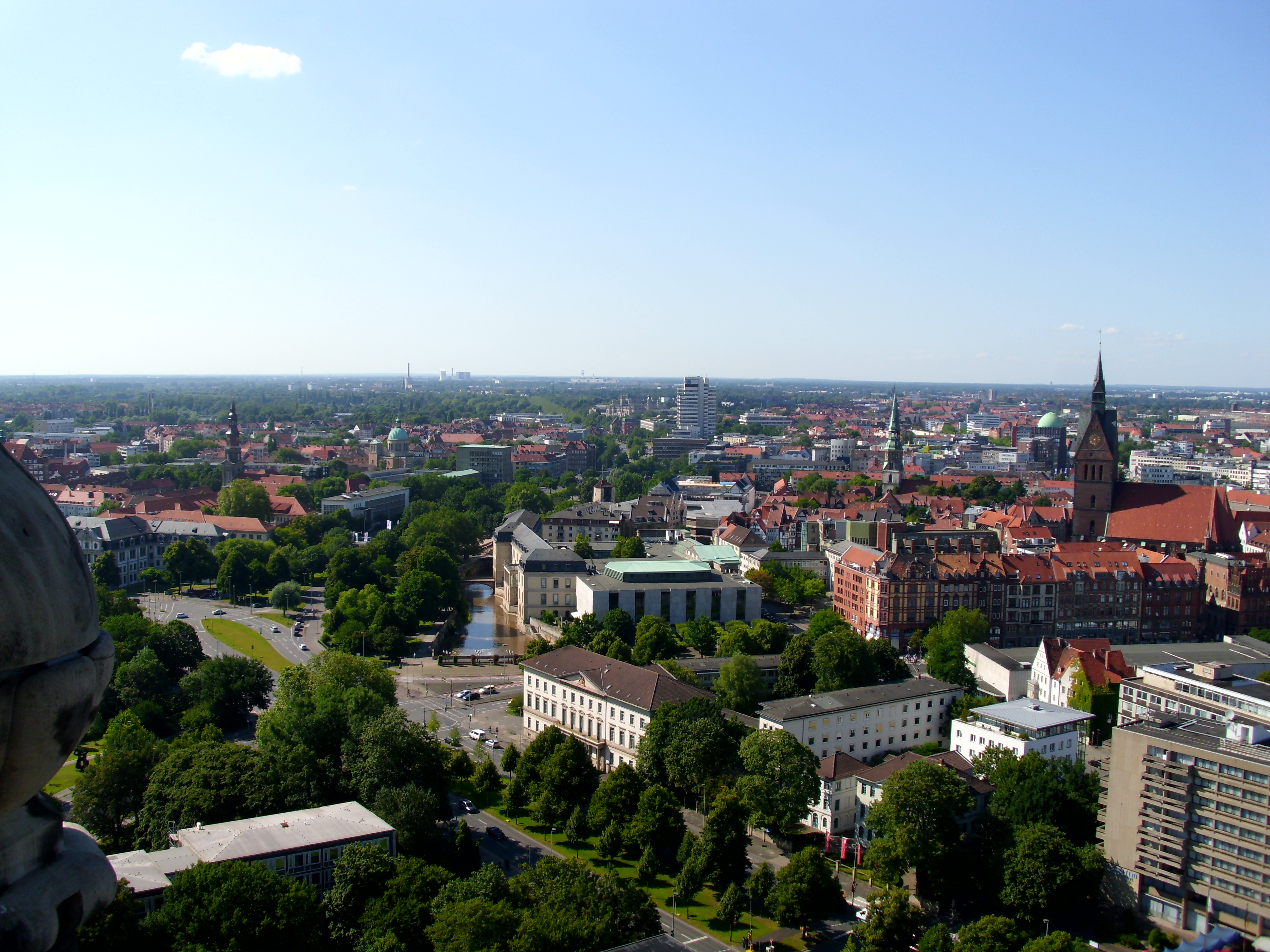 View from the new city hall